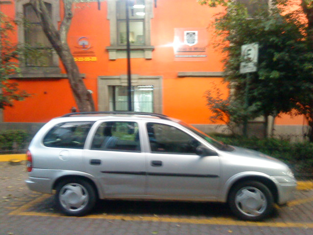 A 2000 Chevy Wagon (Chevrolet Corsa) on mexican streets